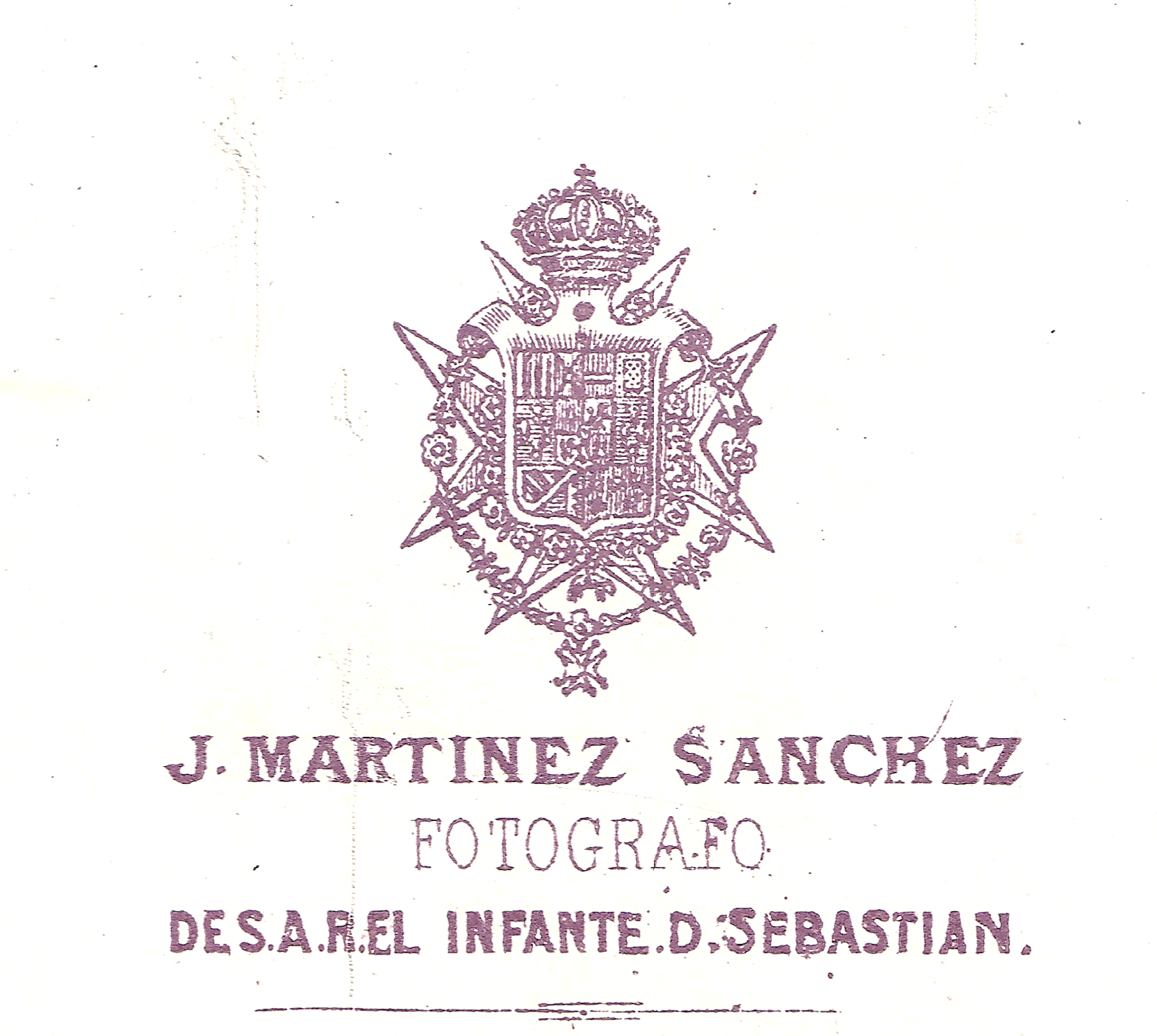 Seal printed on the cardboard back of a photographic portrait, format "carte-de-visite", from the study of Spanish photographer José Martínez Sánchez. Between 1866 and 1868. By the year 1867. The studio was in Madrid, at the "Puerta del Sol", number 4.